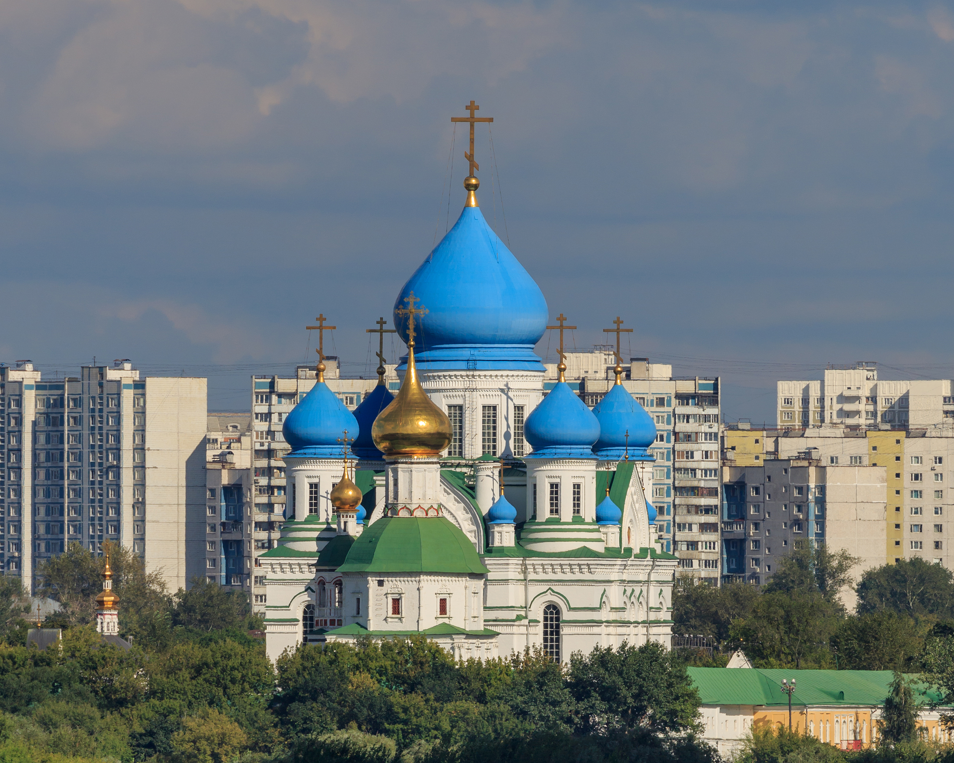 View of Perervinsky Monastery from Kolomenskoe Park. Moscow, Russia.